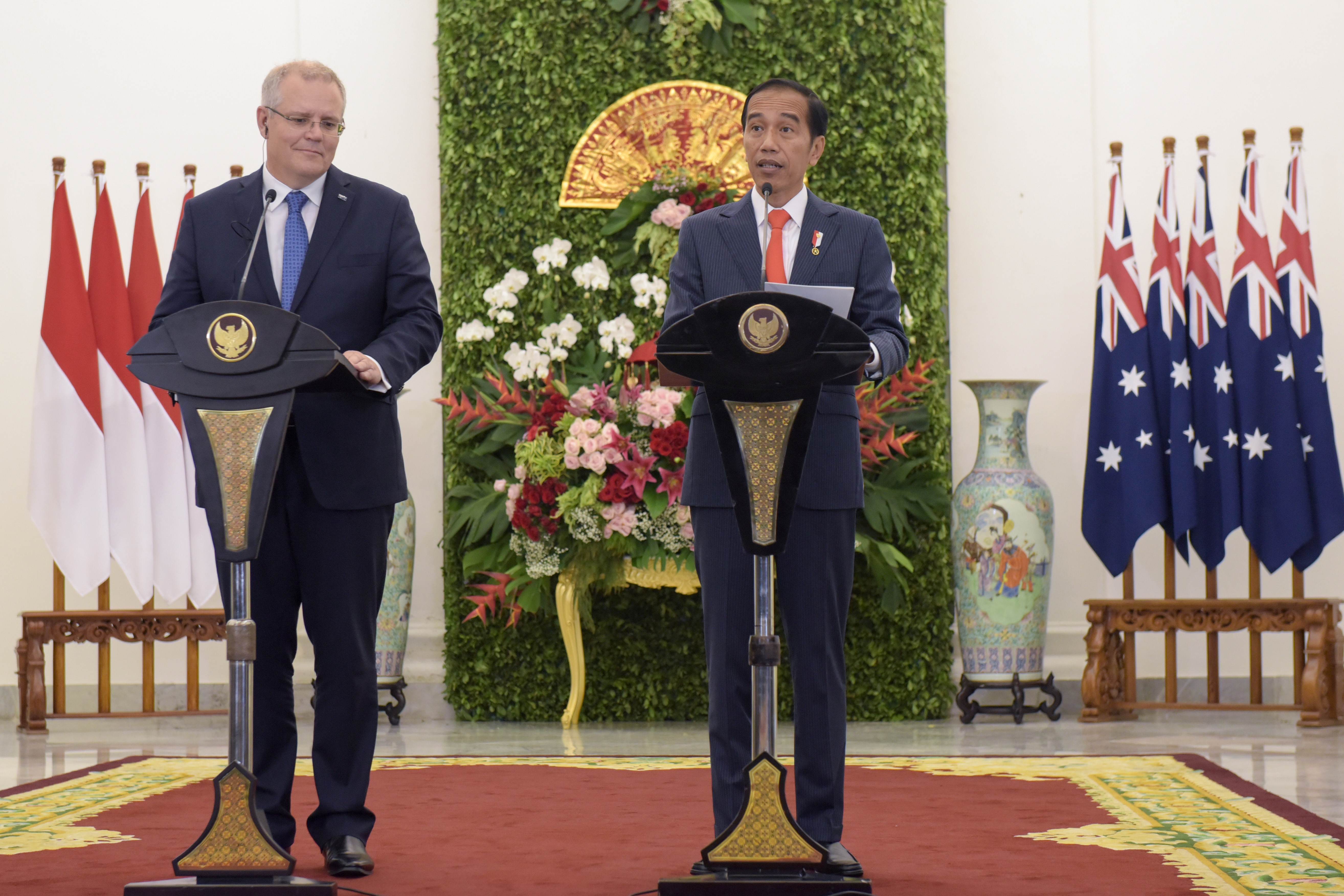 Photo credit: DFAT / Timothy Tobing